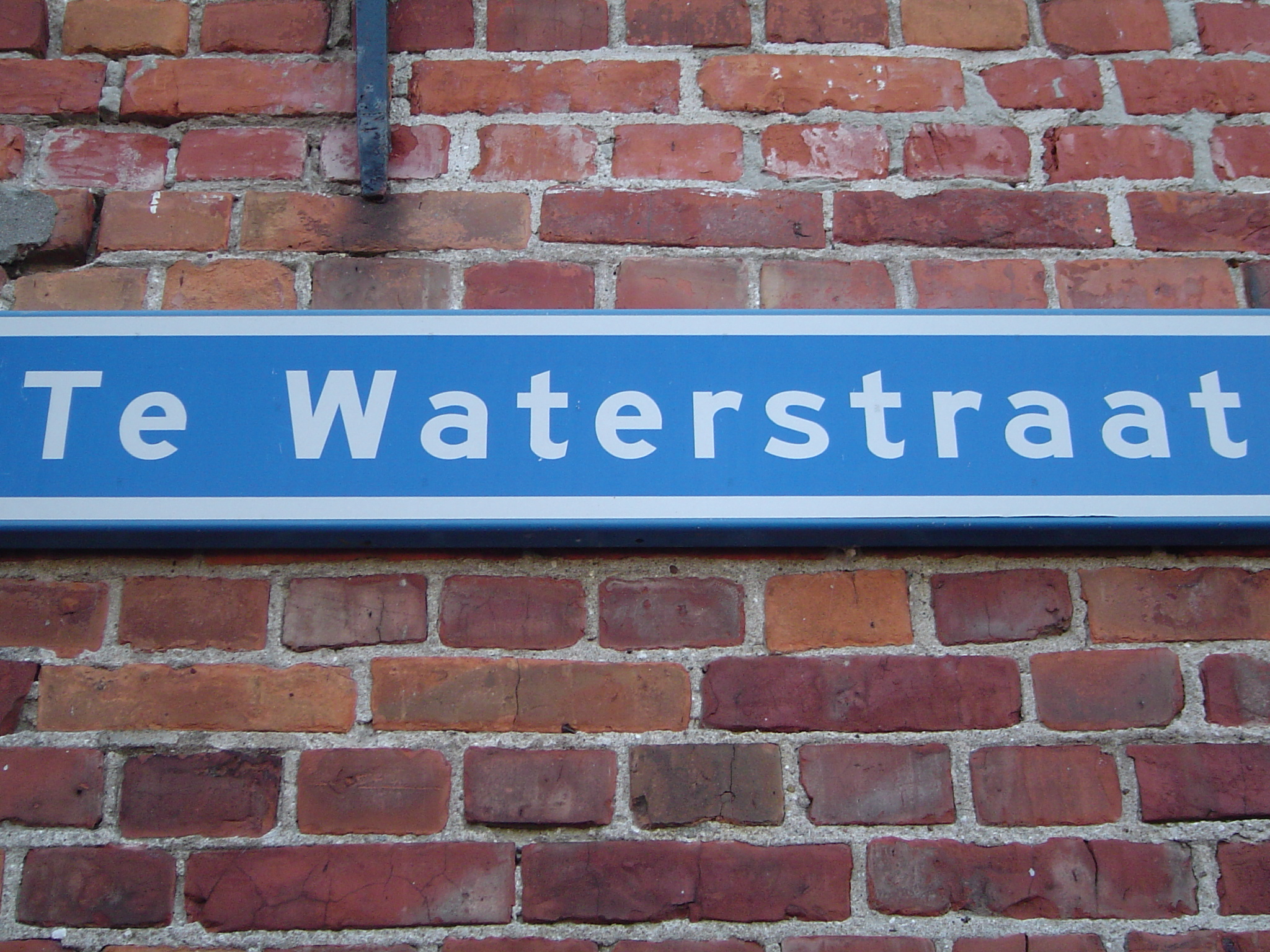 Te Waterstraat sign in Zaamslag